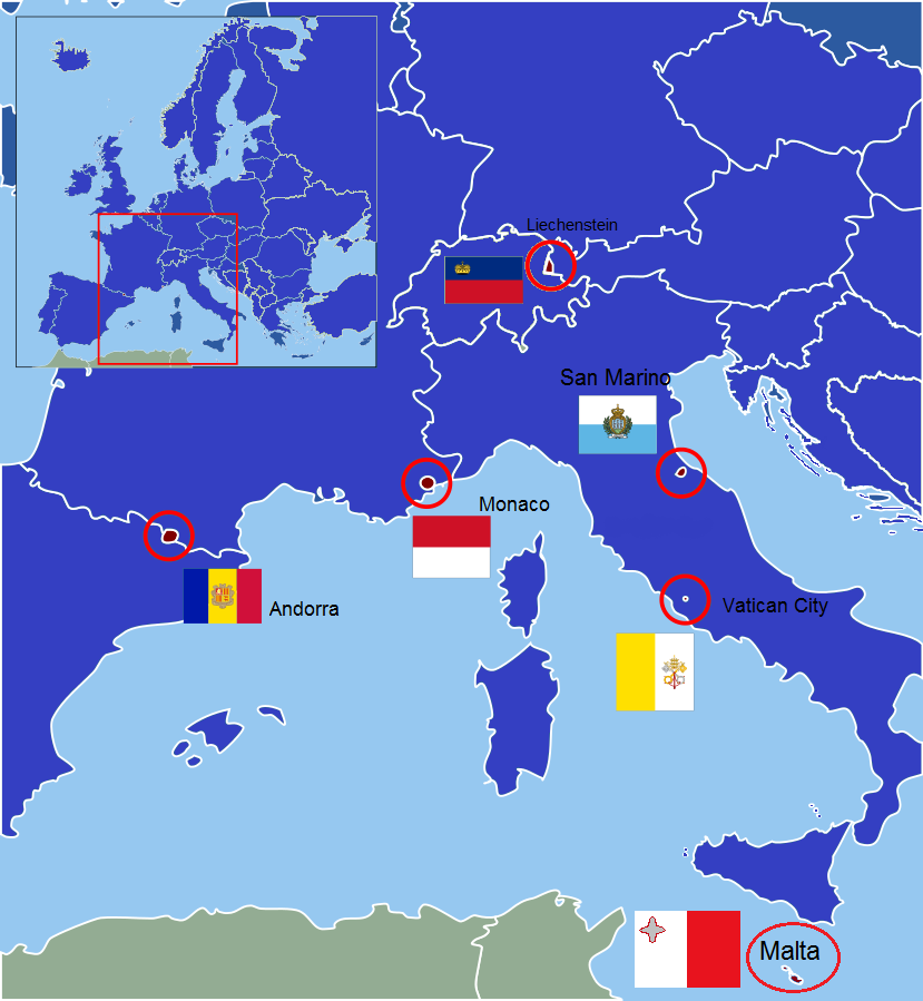 Map of European Ministates.Microstate flags as follows: Andorra Liechtenstein Monaco Malta San Marino Vatican City